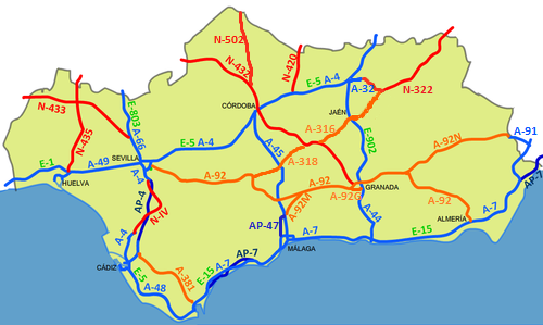 carreteras en Andalucía